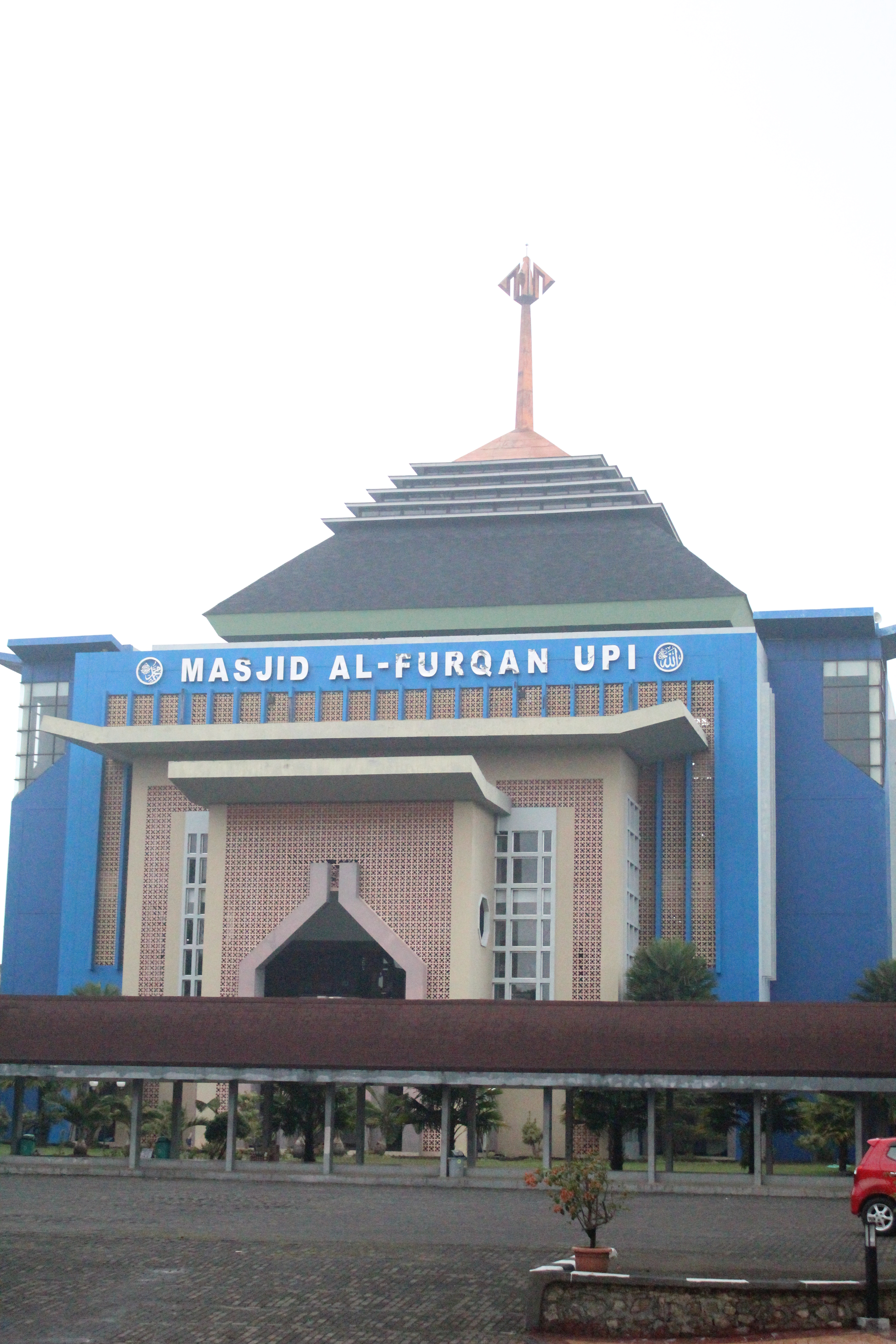 Masjid Al-Furqan Universitas Pendidikan Indonesia